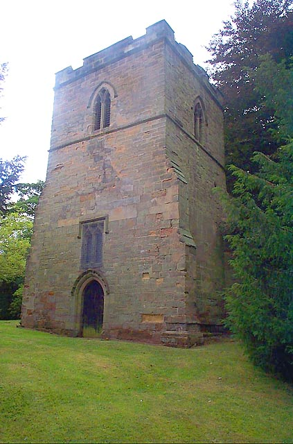 14th-century tower of the former parish church of St Michael, Bramcote, Nottinghamshire. The rest of the church has been lost. It is known locally as the "Sunken Church".